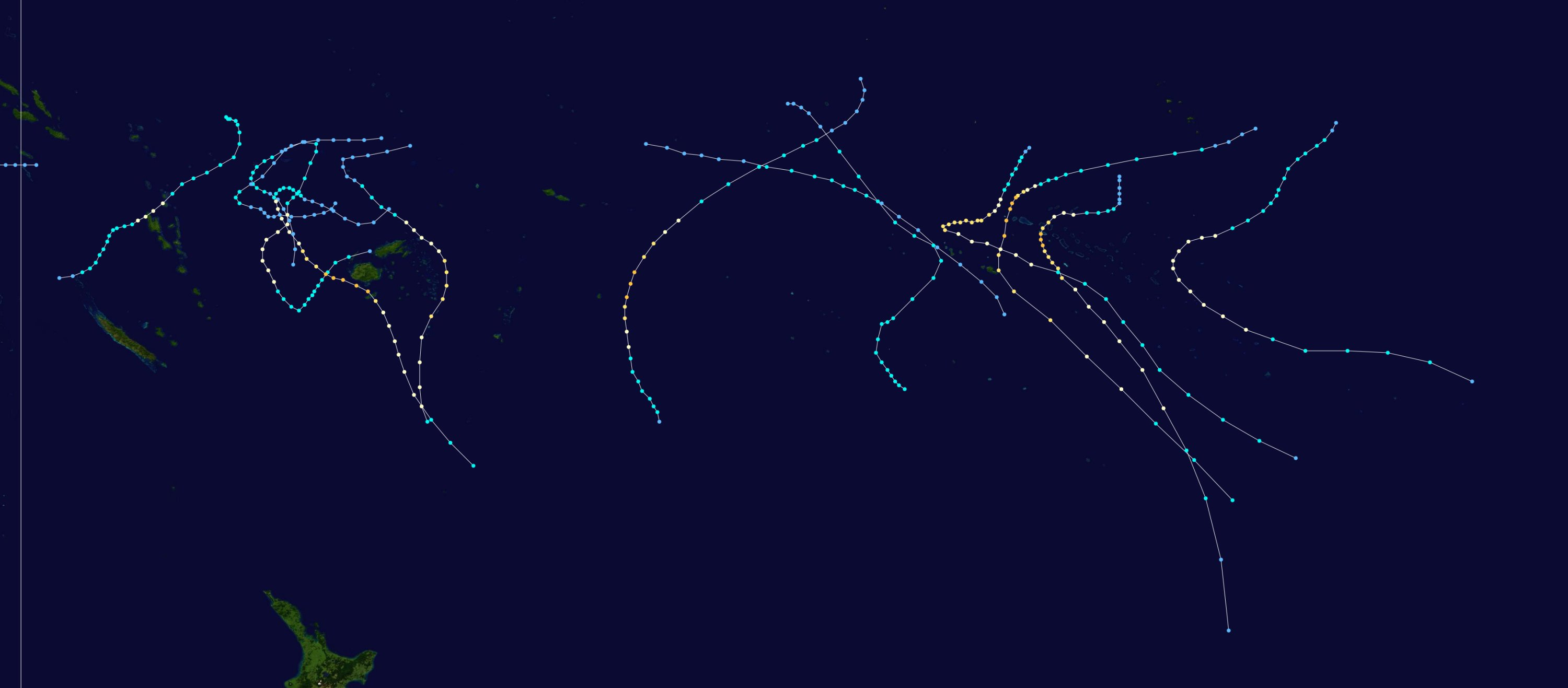 This map shows the tracks of all tropical cyclones in the 1982-83 South Pacific cyclone season. The points show the location of each storm at 6-hour intervals. The colour represents the storm's maximum sustained wind speeds as classified in the Saffir-Simpson Hurricane Scale (see below), and the shape of the data points represent the type of the storm. Saffir–Simpson scale Tropical depression≤38 mph≤62 km/h Category 3111–129 mph178–208 km/h Tropical storm39–73 mph63–118 km/h Category 4130–156 mph209–251 km/h Category 174–95 mph119–153 km/h Category 5≥157 mph≥252 km/h Category 296–110 mph154–177 km/h Unknown Storm typeTropical cycloneSubtropical cycloneExtratropical cyclone / Remnant low / Tropical disturbance